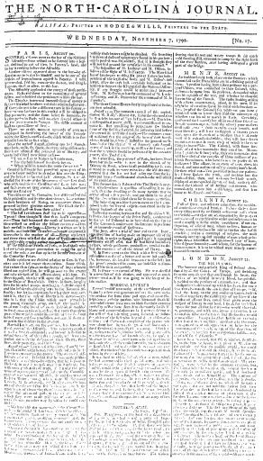 The North-Carolina Journal; Date: 11-07-1792 (Halifax, North Carolina)